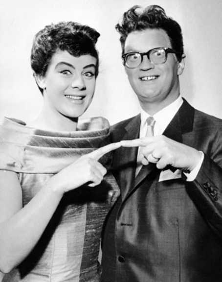 Brita Borg and Povel Ramel